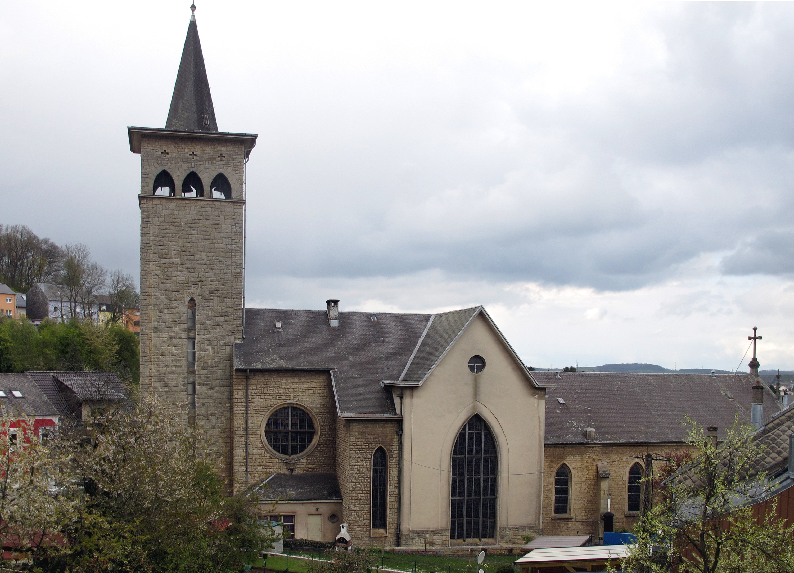 Church of Niedercorn, Luxembourg